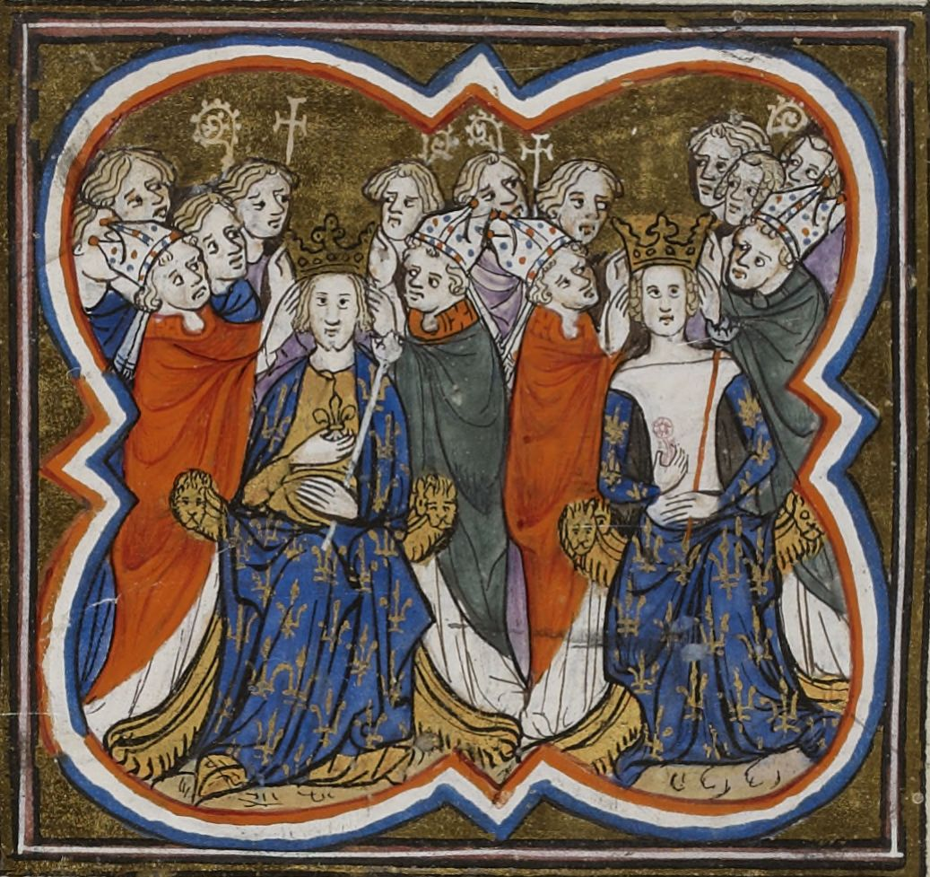 Coronation of King of France Philipp VI of Valois and Queen Jeanne of Burgundy by Archbishop of Reims Guillaume de Trie (Reims, 29 May 1328). Miniature from a manuscript of Grandes Chroniques de France (Paris, Bibliothèque nationale de France, MSS Français 10135, folio 412v)